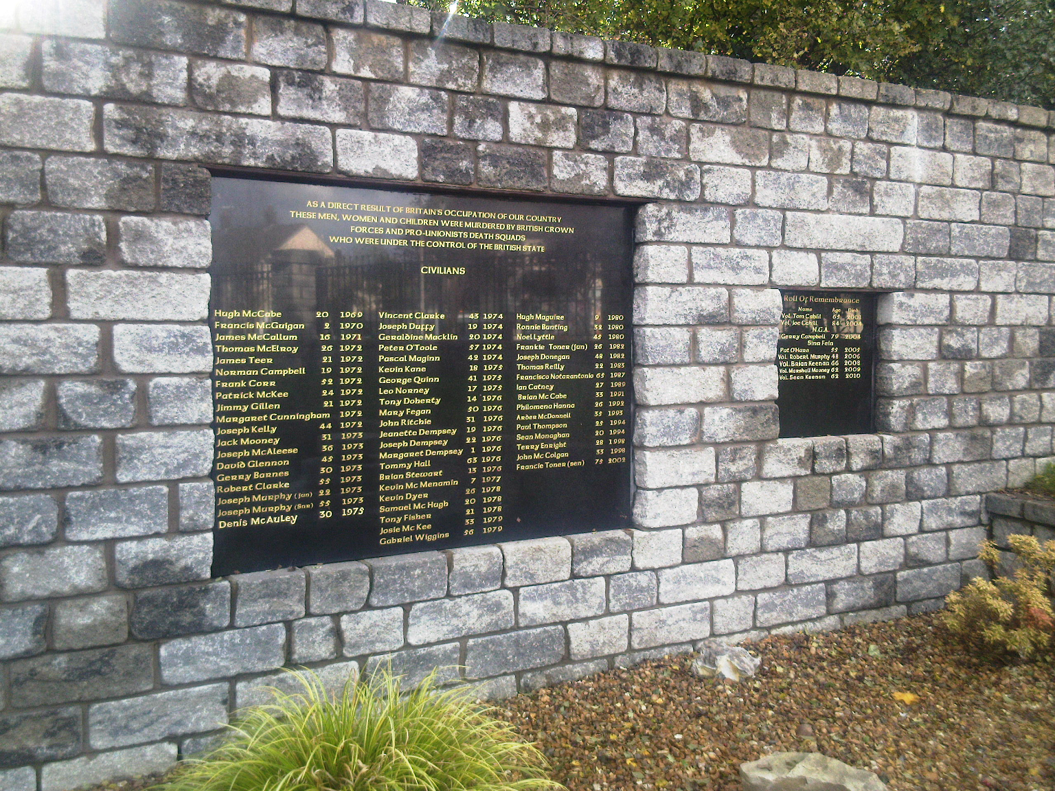 Roll of honour listing civilian deaths in an Irish republican garden of remembrance, Springfield Road, Belfast